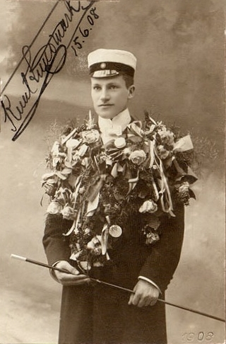 Portrait of swedish professor Knut Lundmark (1889-1958) as student 1908, with signature. Photo owned by Birger Nordlund, Älvsbyn, Sweden.